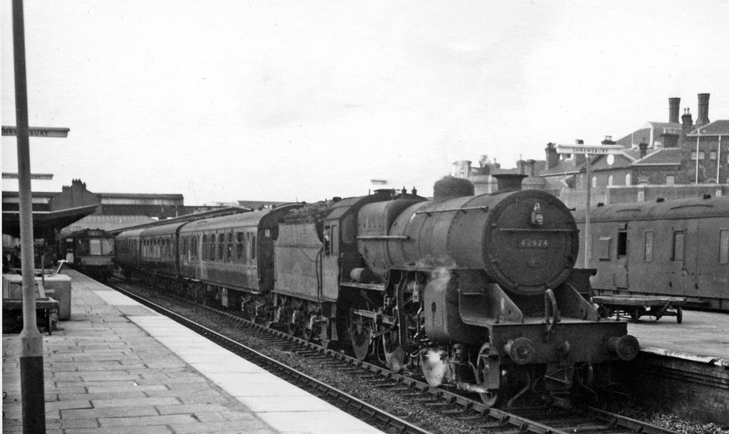 Stopping train at Shrewsbury Station. View northward from the south end of the station. The train is for Wolverhampton (Low Level) by the ex-Great Western & London & North Western Joint main line via Wellington and is headed by Hughes/Fowler 5P4F 2-6-0 No. 42924. Over on the right is Shrewsbury Prison.